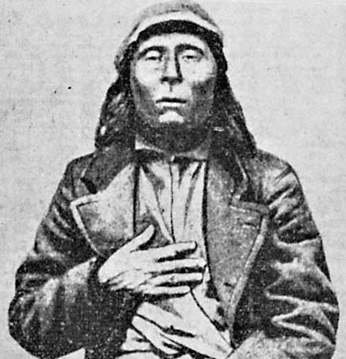 Chief Paulina, Northern Paiute leader, photo probably taken in 1865 when he was living on the Klamath Reservation in southern Oregon